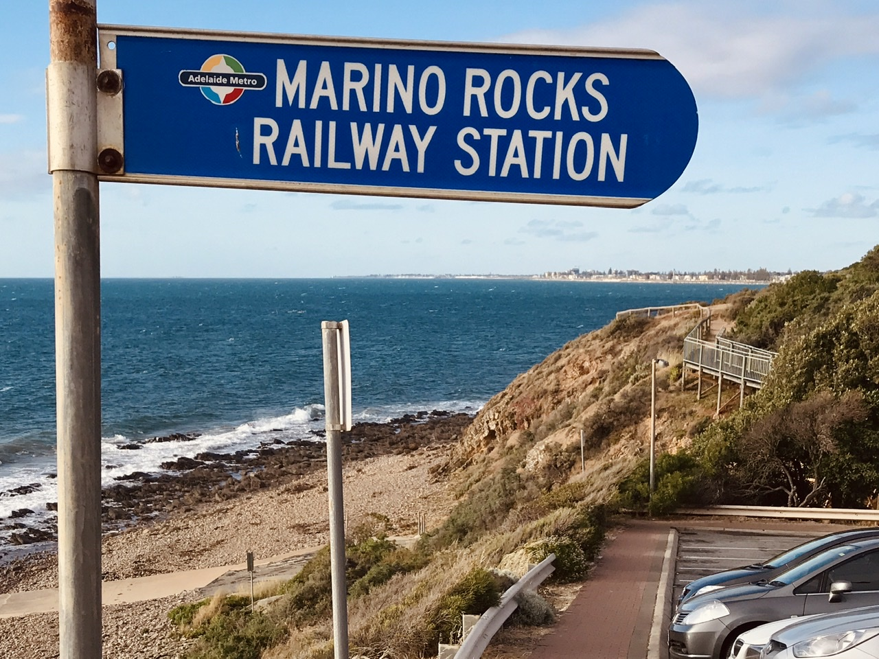 Adelaide Metro signage at Marino Rocks beach, directing visitors to Marino Rocks train station.